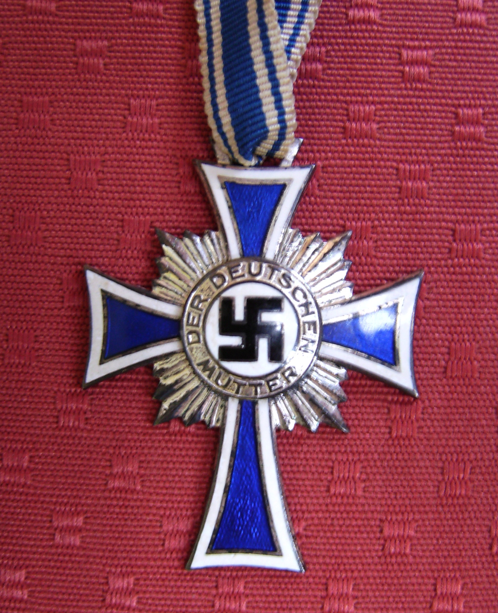 Cross of Honor of the German Mother